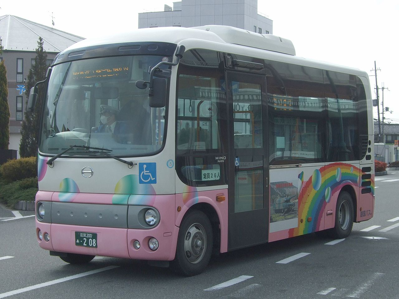 Higashiomi City Community Bus “Chokotto-Bus” 東近江市コミュニティバス「ちょこっとバス」